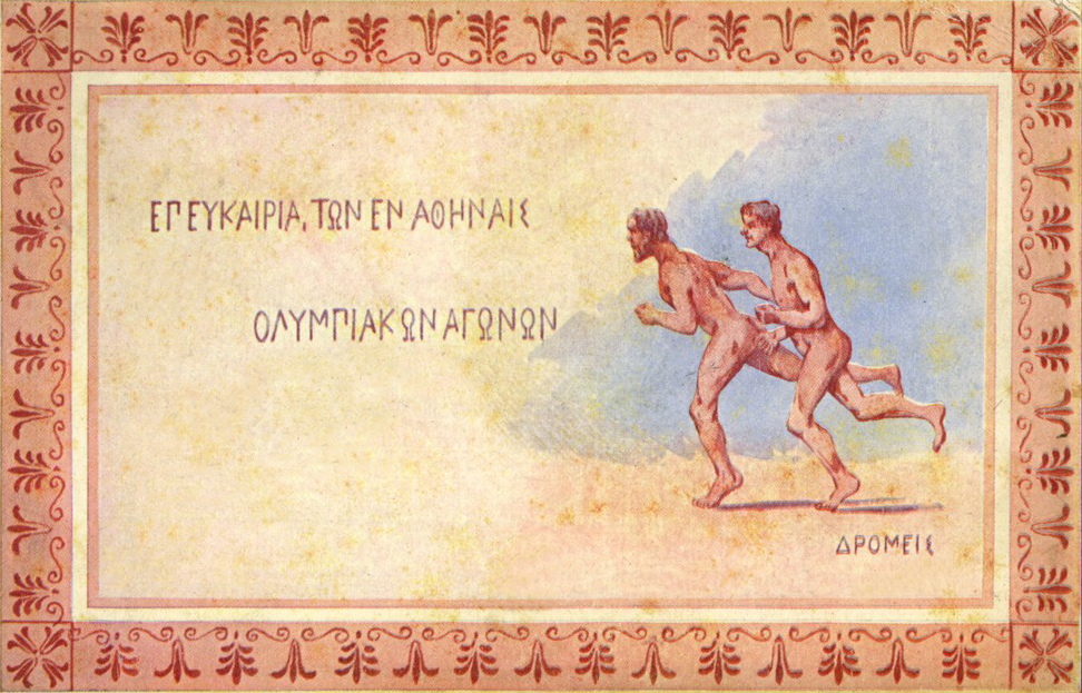 Runners. Postcard published on the occasion of the 1906 Olympic Games in Athens.